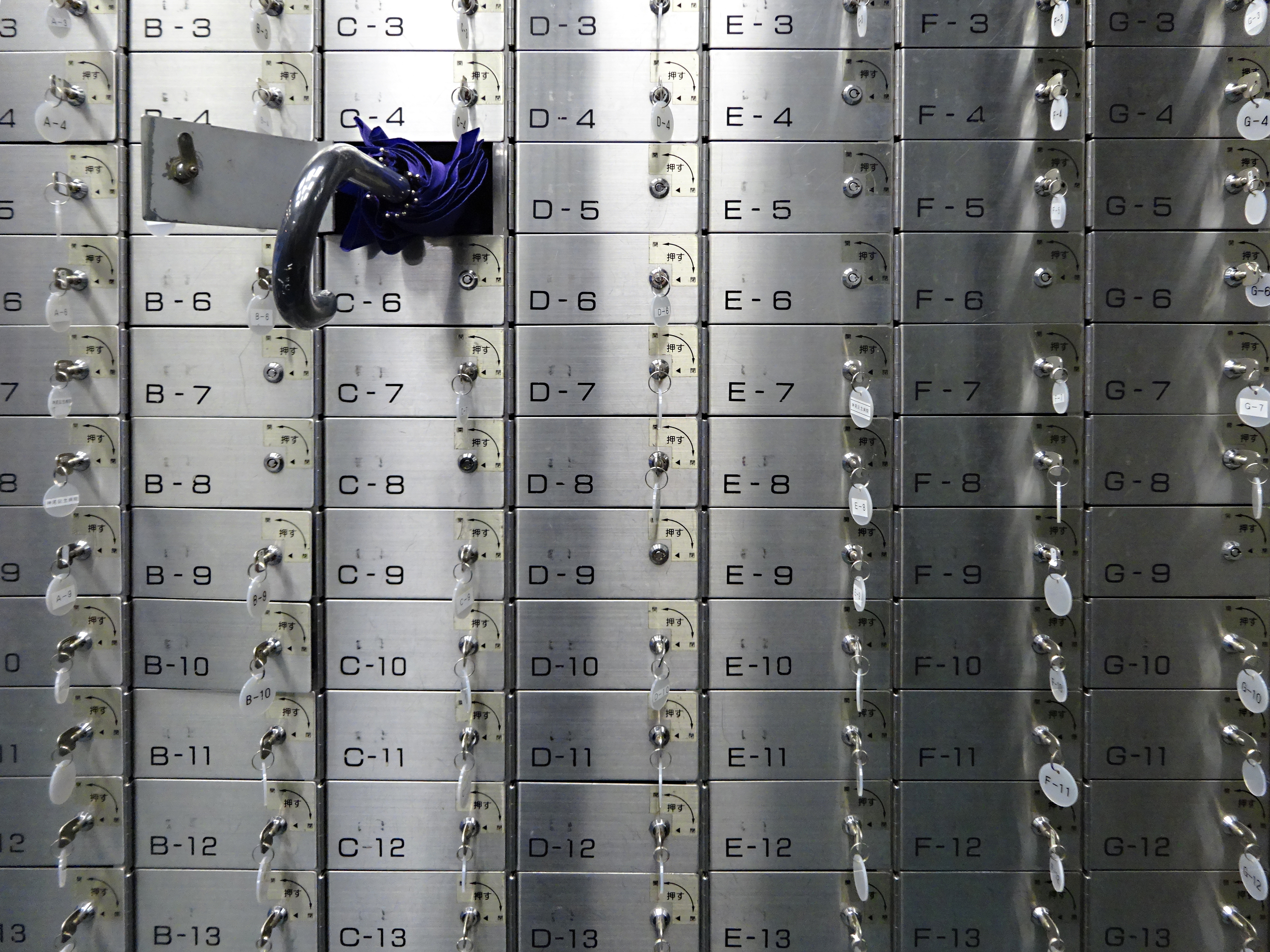 This was a large stainless steel umbrella storage unit with individual keys at the entrance of a hospital. The Japanese on the whole are very honest, but umbrella theft can be rampant on rainy days:)